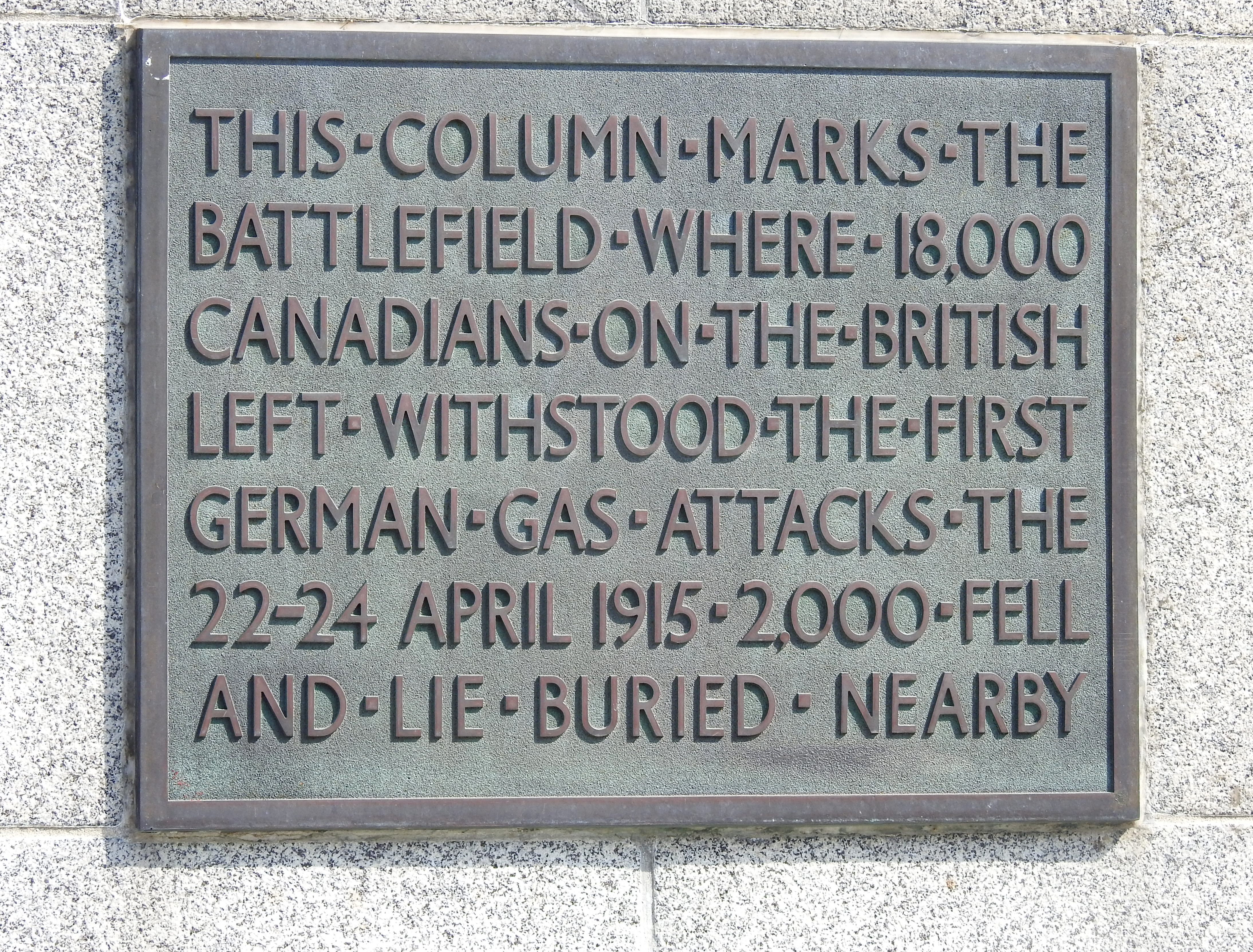 Plaque on the side of the Brooding Soldier statue.